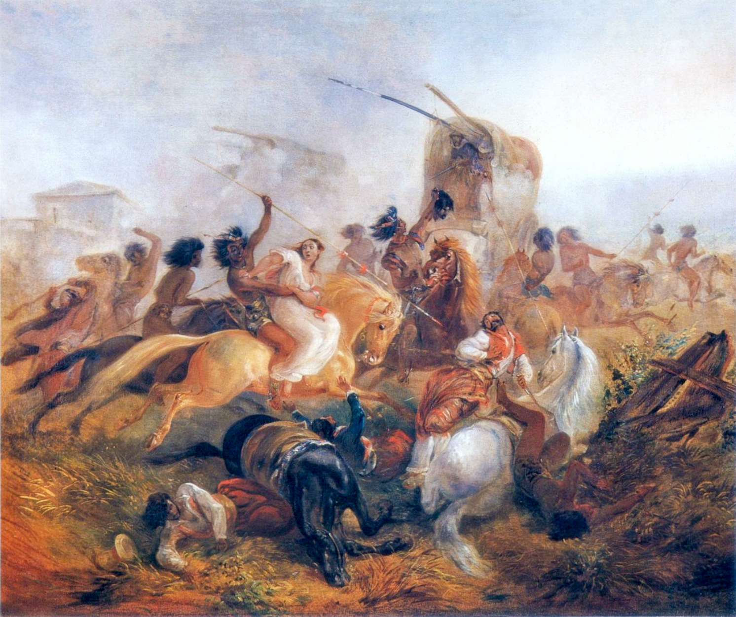 Indians attacking Argentine soldiers (actually Gaucho members of the militia). One of the Indians has forcibly taken a woman.